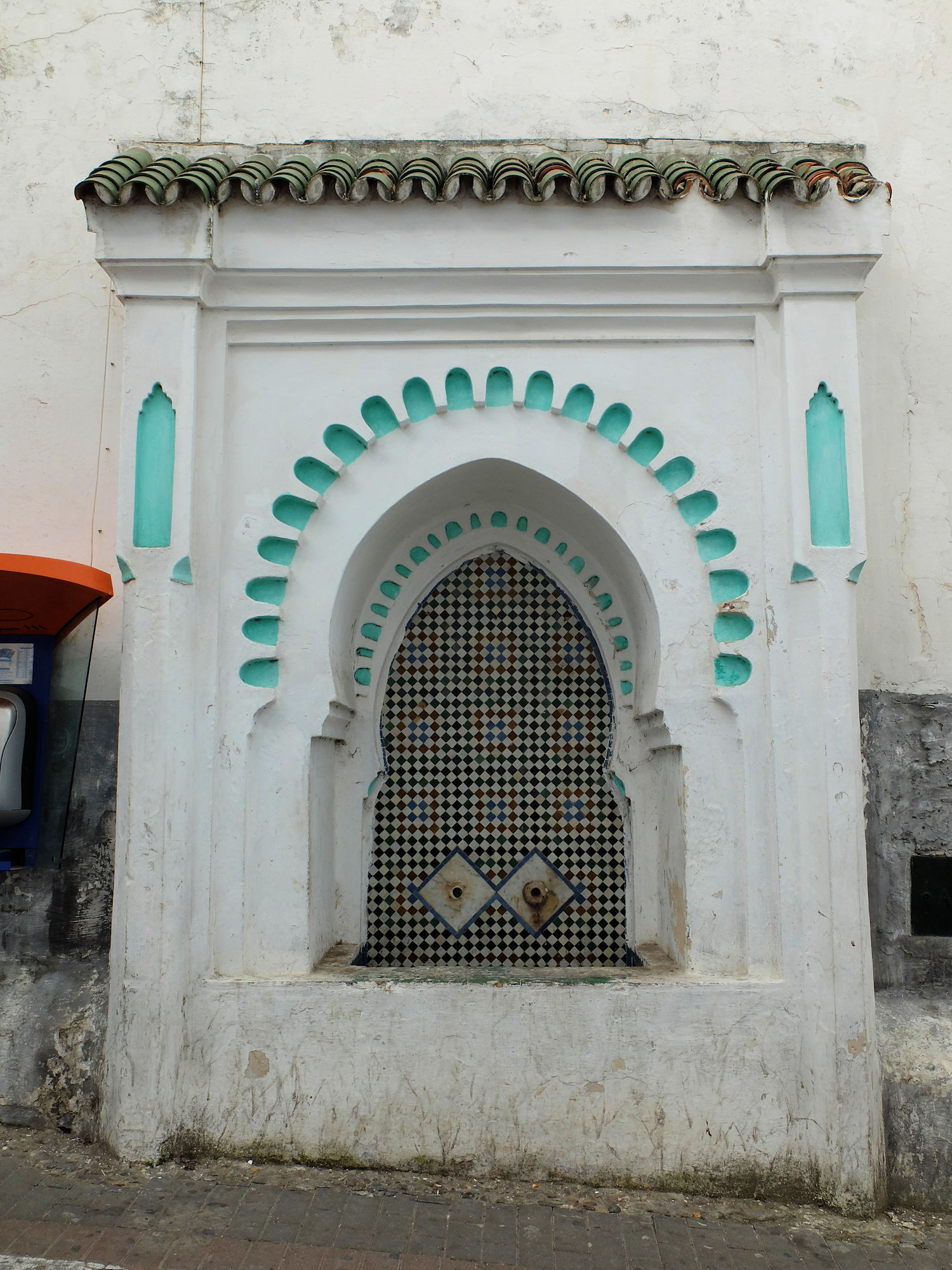 The street fountain across from the Grand Mosque of Tangier, late 19th century (with subsequent restorations).